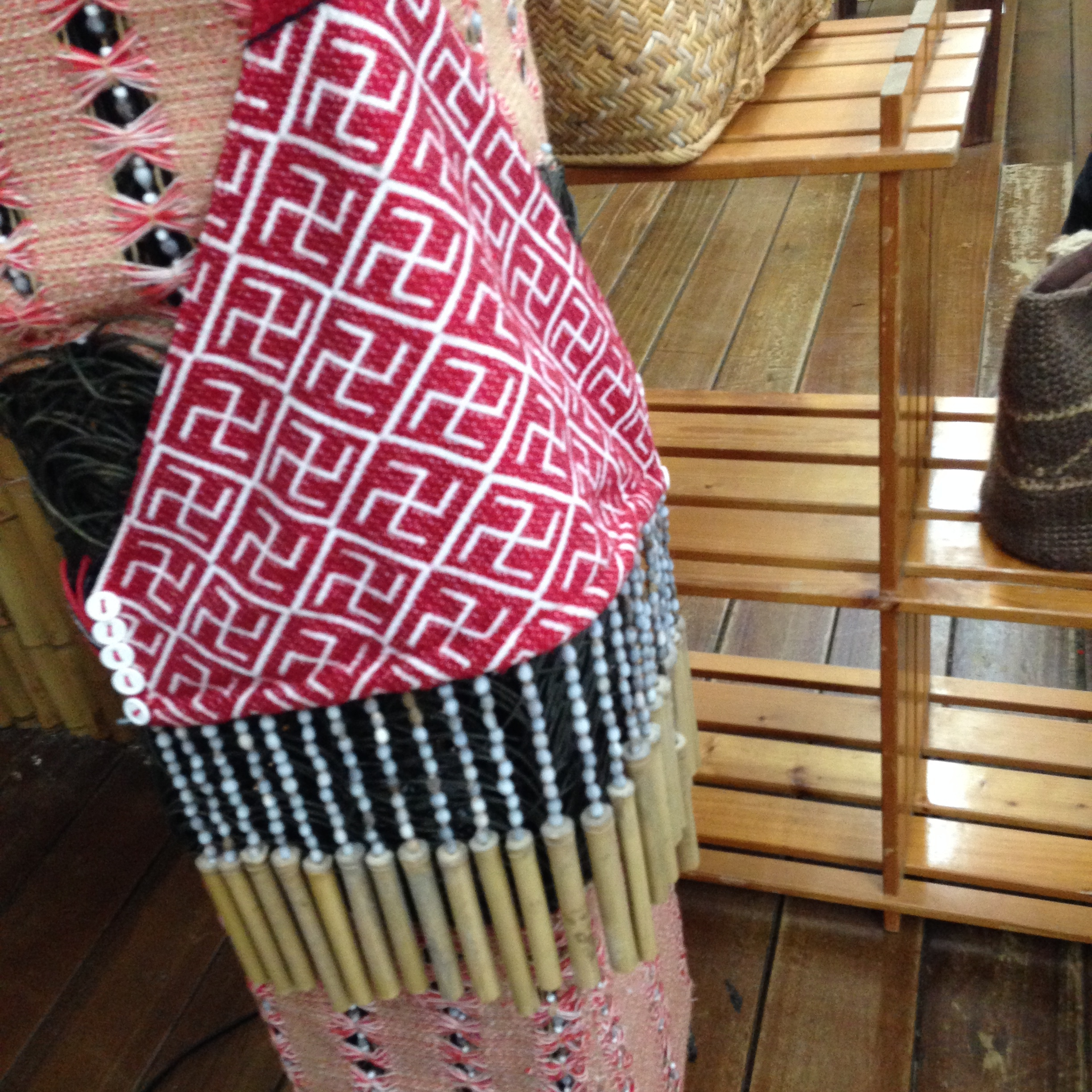 The Saisiyat pattern of the Goddess of Thunder (on) on a traditional buttock bell. 中文（台灣）: 賽夏族臀鈴上的雷女紋